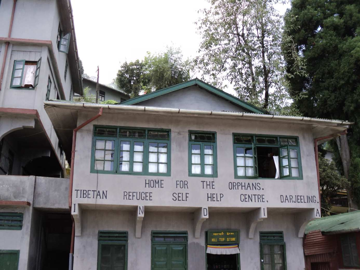 part of tibetan self help centre in darjeeling